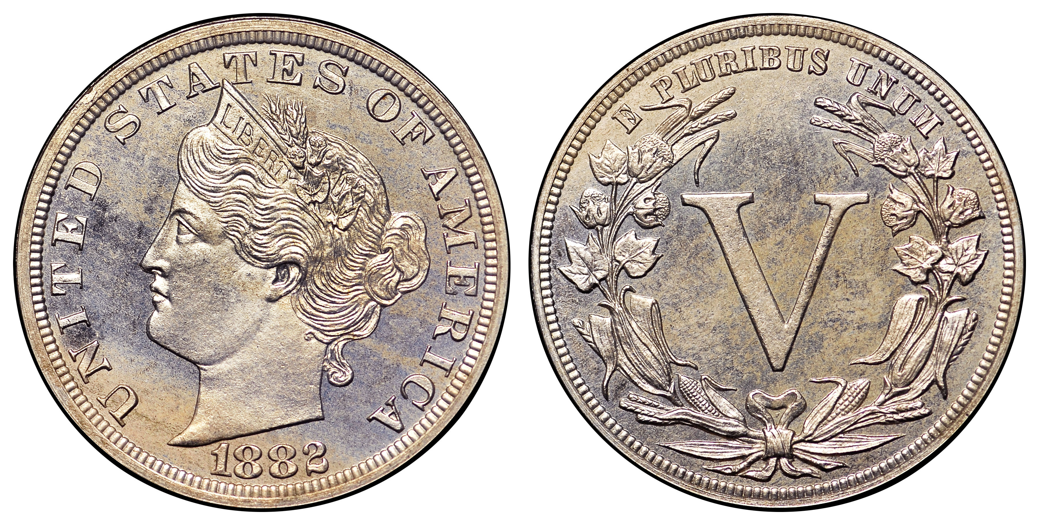 1882 5C Liberty Head Five Cents (Judd-1684)(1184-4033)